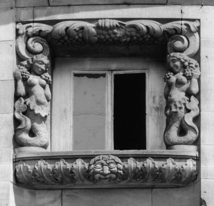 Heilbronn Theater